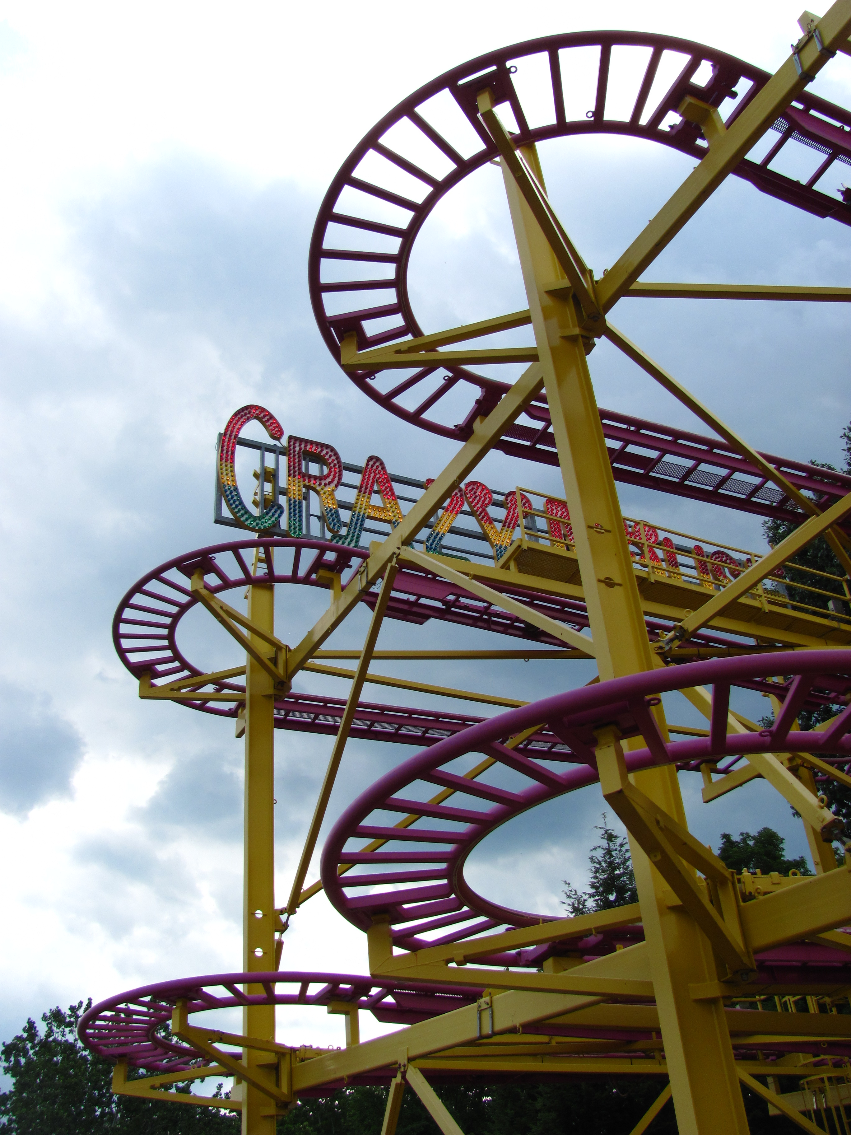 Crazy Mouse ride at DelRosso's Amusement Park in Tipton Pennsylvania